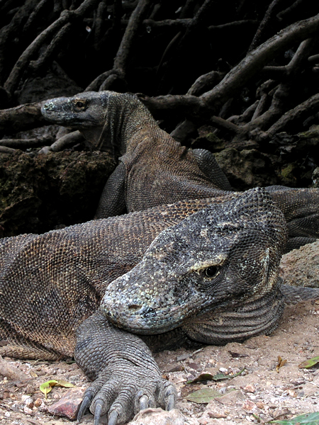 Komodo dragon